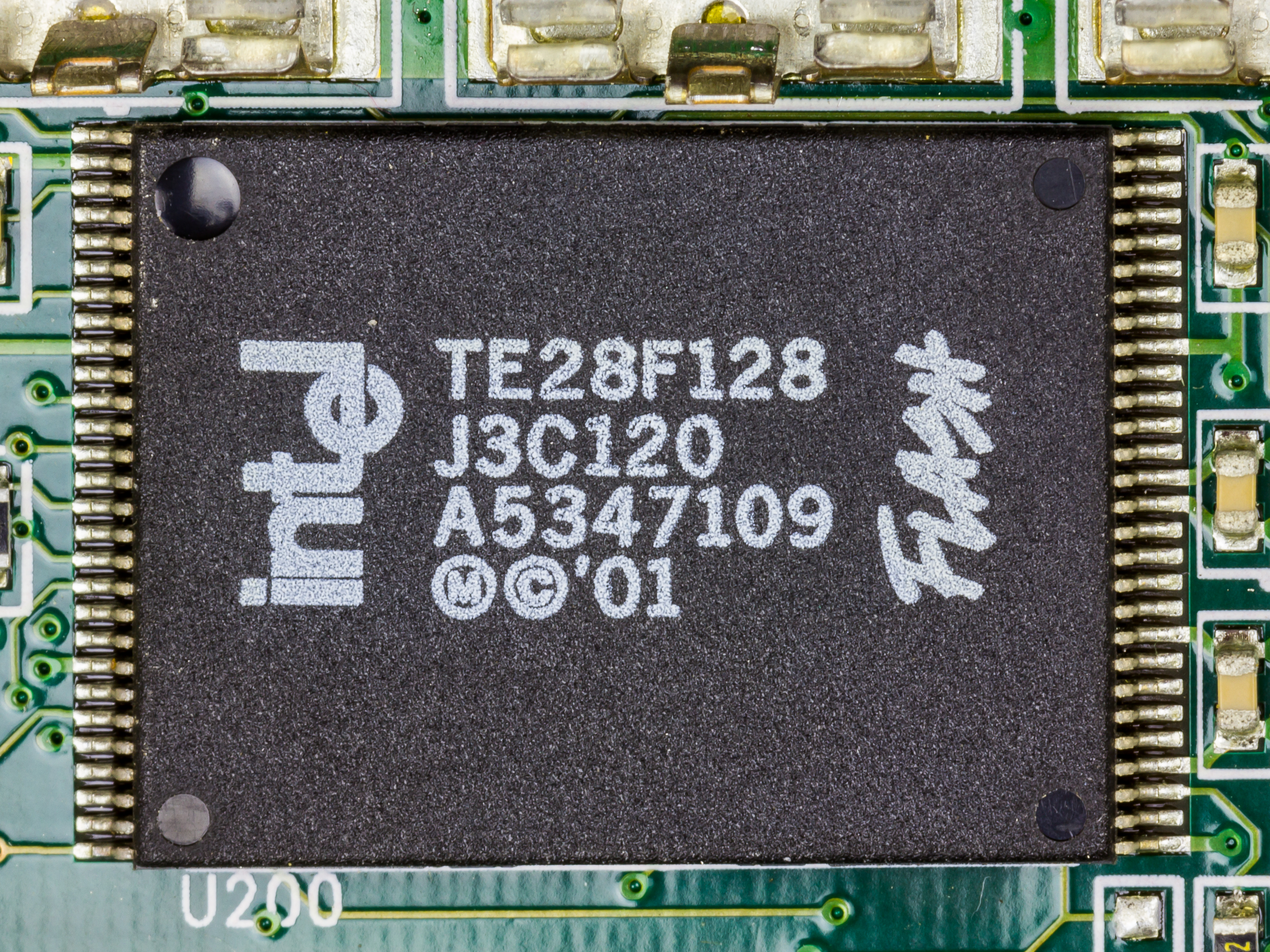 Intel StrataFlash Memory TE28F128J3C-120 (256-Mbit (x8/x16)) on mainboard of Surf@home II